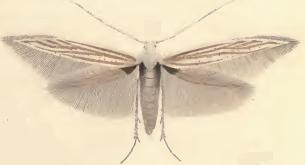 Stainton’s Natural History of the Tineina (1855–1873): Coleophora argentula